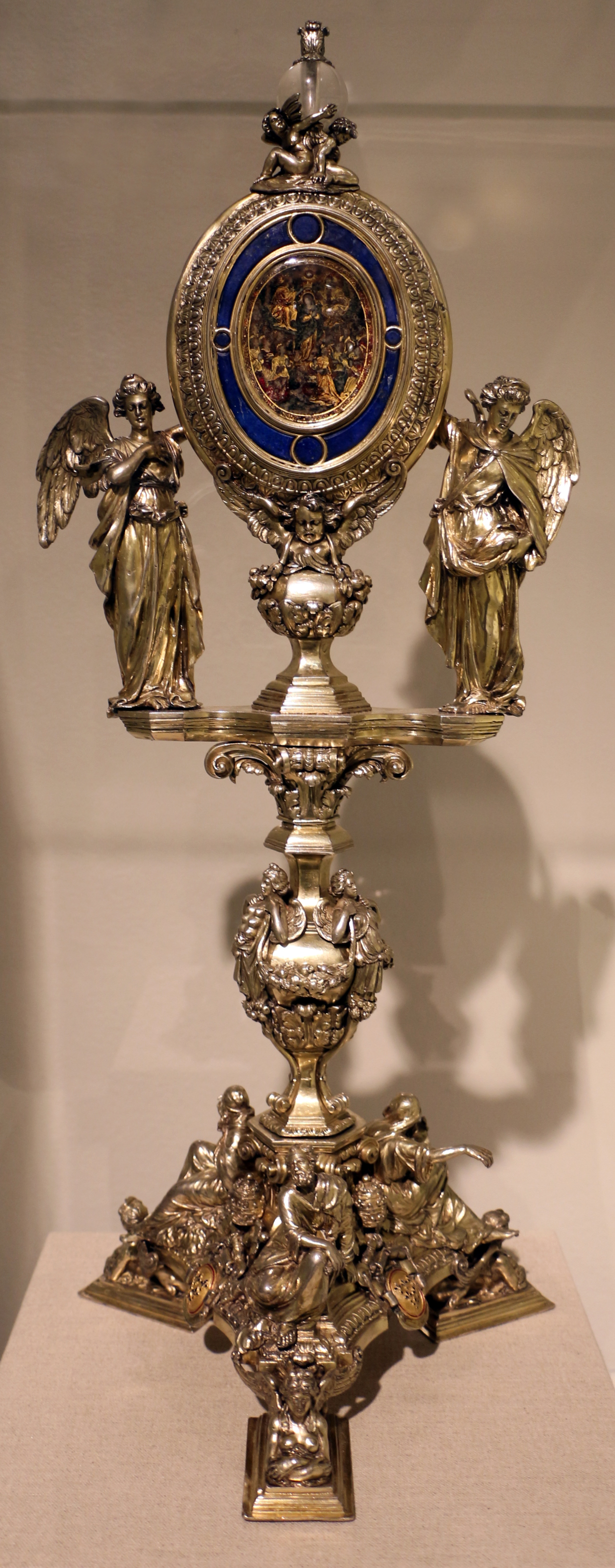 Collections of the Smart Museum of Art